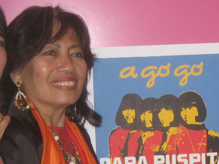 Lies Rachman (born 1948), former bass player of Indonesian all-female pop group Dara Puspita. Photograph: 16 Oct. 2015 at Tropenmuseum, Amsterdam (exhibition The Sixties)